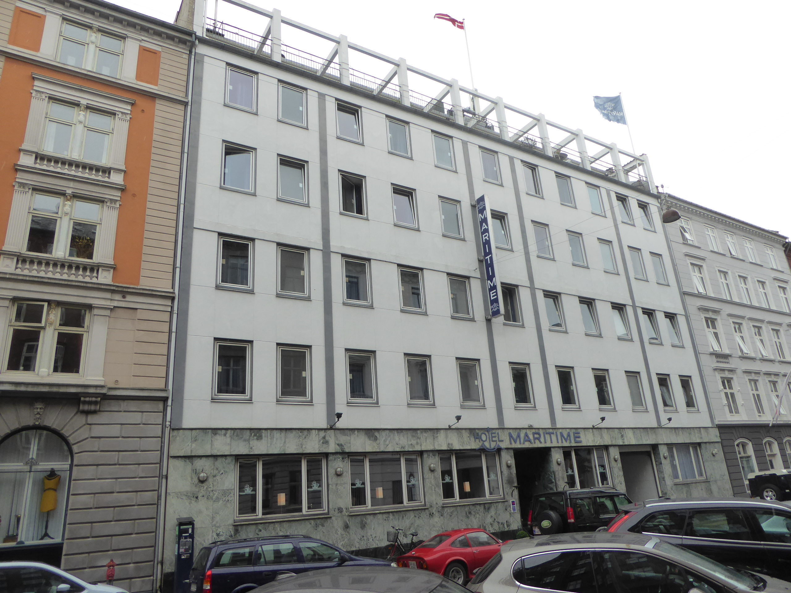 Hotel Maritime at Peder Skrams Gade in Indre By in Copenhagen.